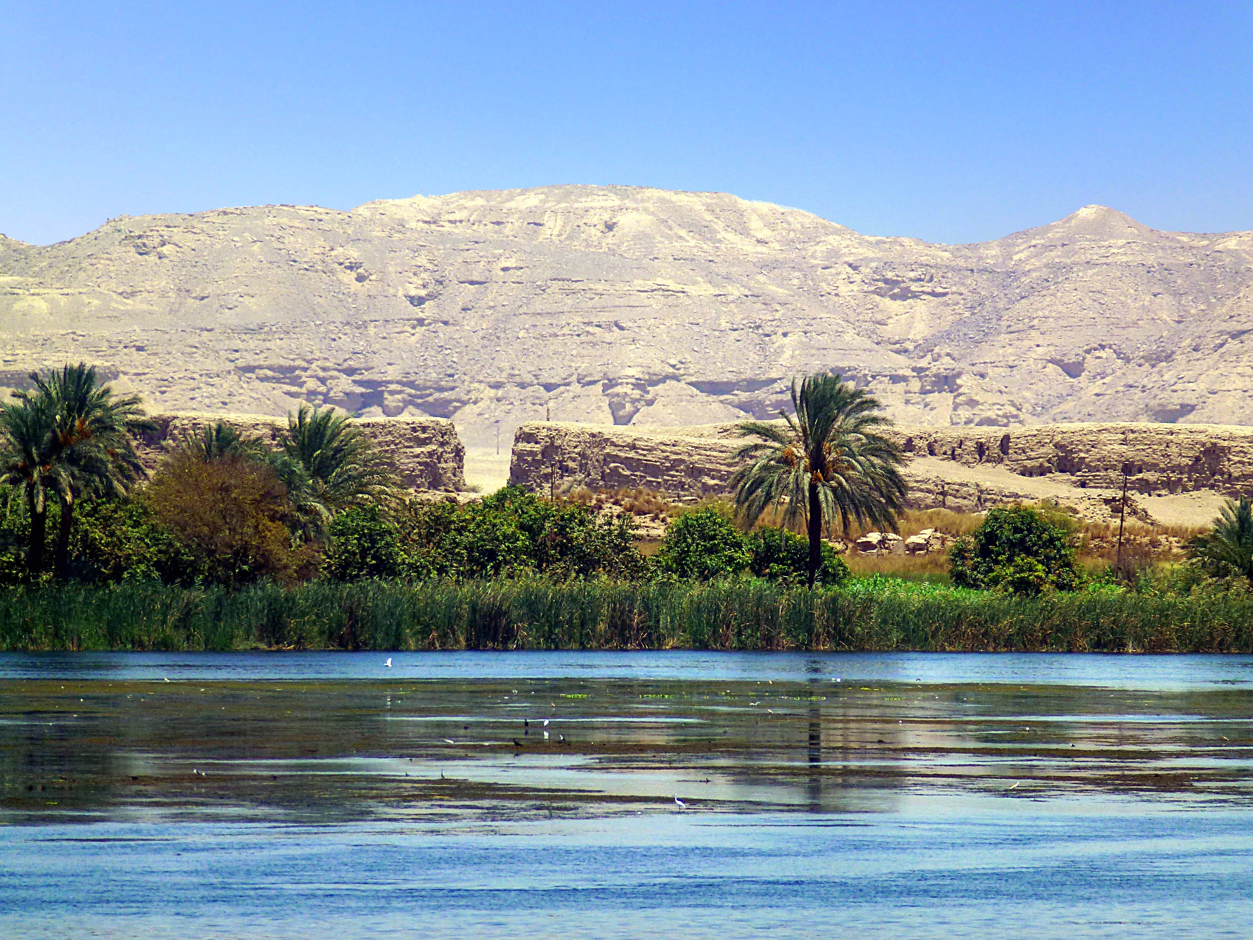 El Kab - Necheb The city walls of mud bricks from the Nile